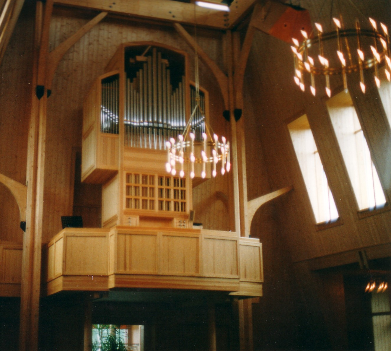 The organ of Seegård Church in Snertingdal near the city of Gjøvik, Norway, built by Norsk Orgel-Harmoniumfabrikk/Norsk Orgelverksted, Snertingdal, in 1997. 21 stops.